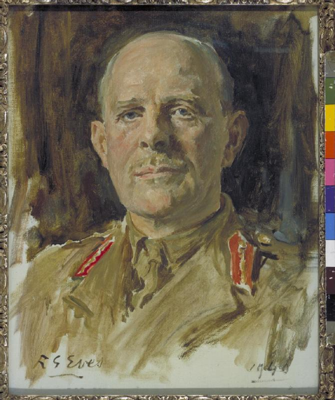 General the Viscount Gort Vc, Gcb, Cbe, Dso, Mvo, Mc image: A head and shoulders portrait of Gort wearing uniform.